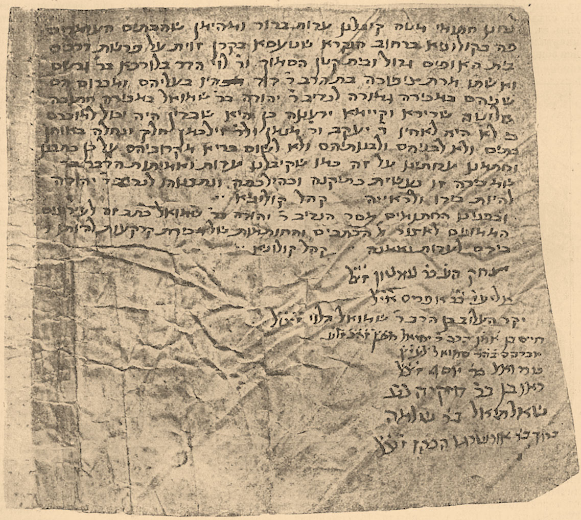 Illustration from Brockhaus and Efron Jewish Encyclopedia (1906—1913)